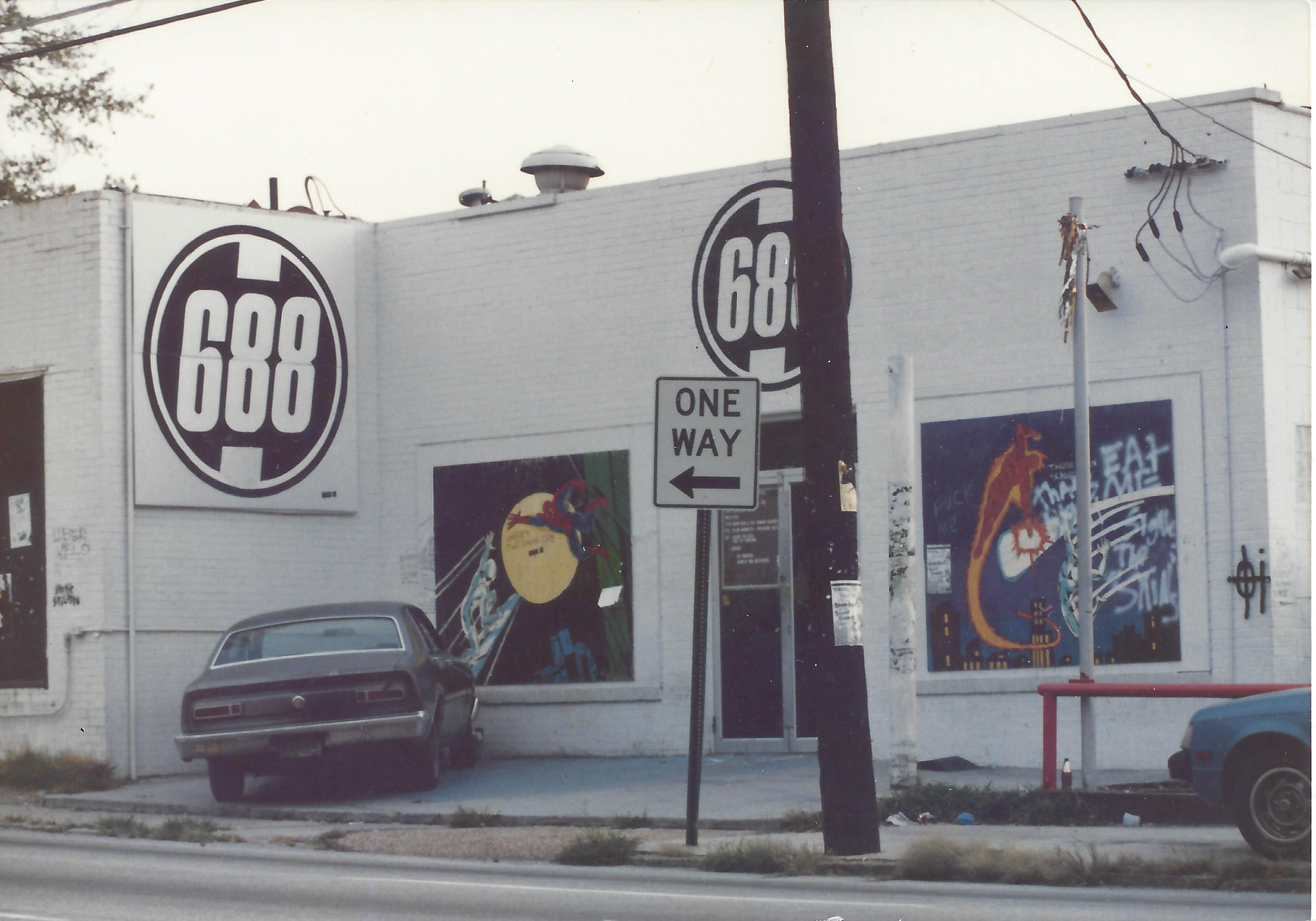 Club 688 in 1985 - 35 mm film